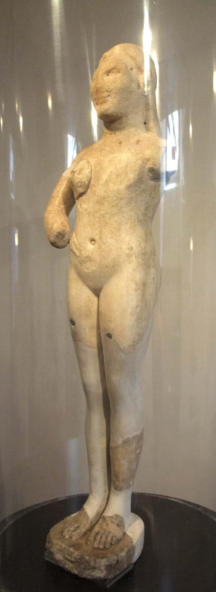 Etruscan Venus of Cannicella, Museo Claudio Faina, Orvieto 2009